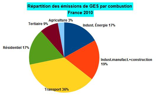 Distribution of greenhouse gases emissions from fuel combustion in France, 2010 data source : EEA